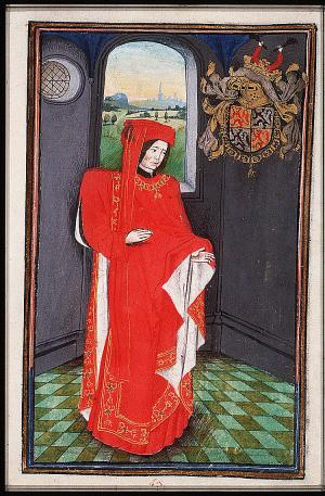 Statuts, Ordonnances et Armorial de l'Ordre de la Toison d'Or (Statutes, Ordonnances and armorial of the Order of the Golden Fleece) Place of origin, date: Southern Netherlands; 1473. Added sections: Southern Netherlands; 1478 or shortly after and 1491 or shortly after Material: Vellum, ff. 86, 249x187 (167x106) mm, 23 lines, littera cursiva (lettre bourguignonne). French. Binding: 18th-century brown leather Decoration: 1 full-page miniature (170x115 mm) with border decoration; 92 miniatures (185/155x120/100 mm); 1 historiated initial (80x90 mm) with border decoration; decorated initials with border decoration (ff., Added section: miniatures ; 4 drawings for miniatures (not finished) Provenance: Presented in 1473 by Gilles Gobet, King of Arms of the Order of the Golden Fleece, to Charles the Bold, Duke of Burgundy and the other Knights during the Chapter of the Order held at Valenciennes; Treasure of the Golden Fleece, Brussls; taken away by the Treasurer C.-F. Humyn (d. 1735) or his daughter C.Ch. de Corte; by legacy to her daughter M.-L. de Corte, wife of Ph.-E. de Poederlé; purchased in 1781 at the Poederlé sale by G.-J- Gérard of Brussels; acquired in 1832 as part of the Gérard collection (no. A 27)